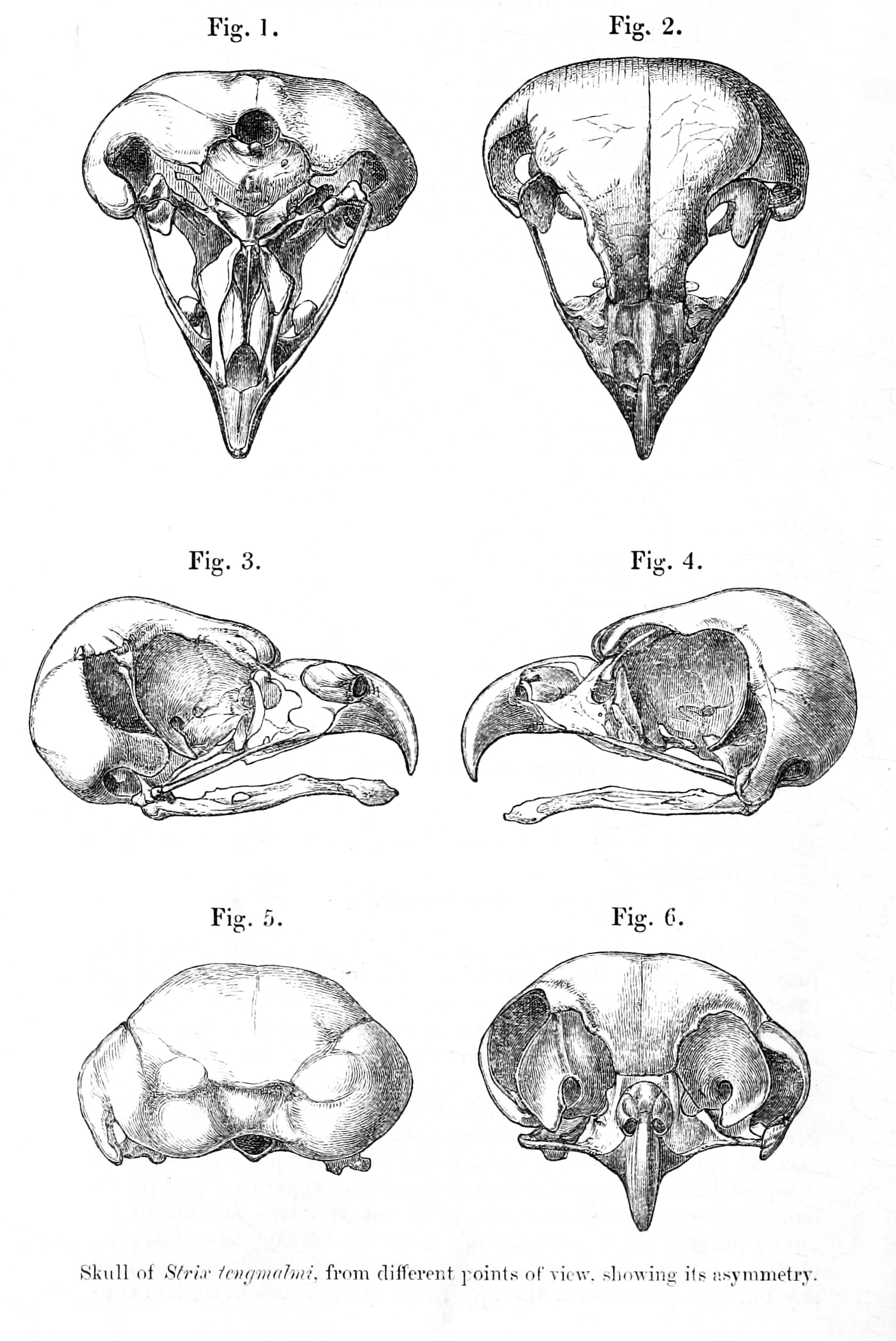 Tengmalm's Owl, skull from ventral (1), dorsal (2), right lateral (3), left lateral (4), posterior (5) and anterior (6) showing asymmetry